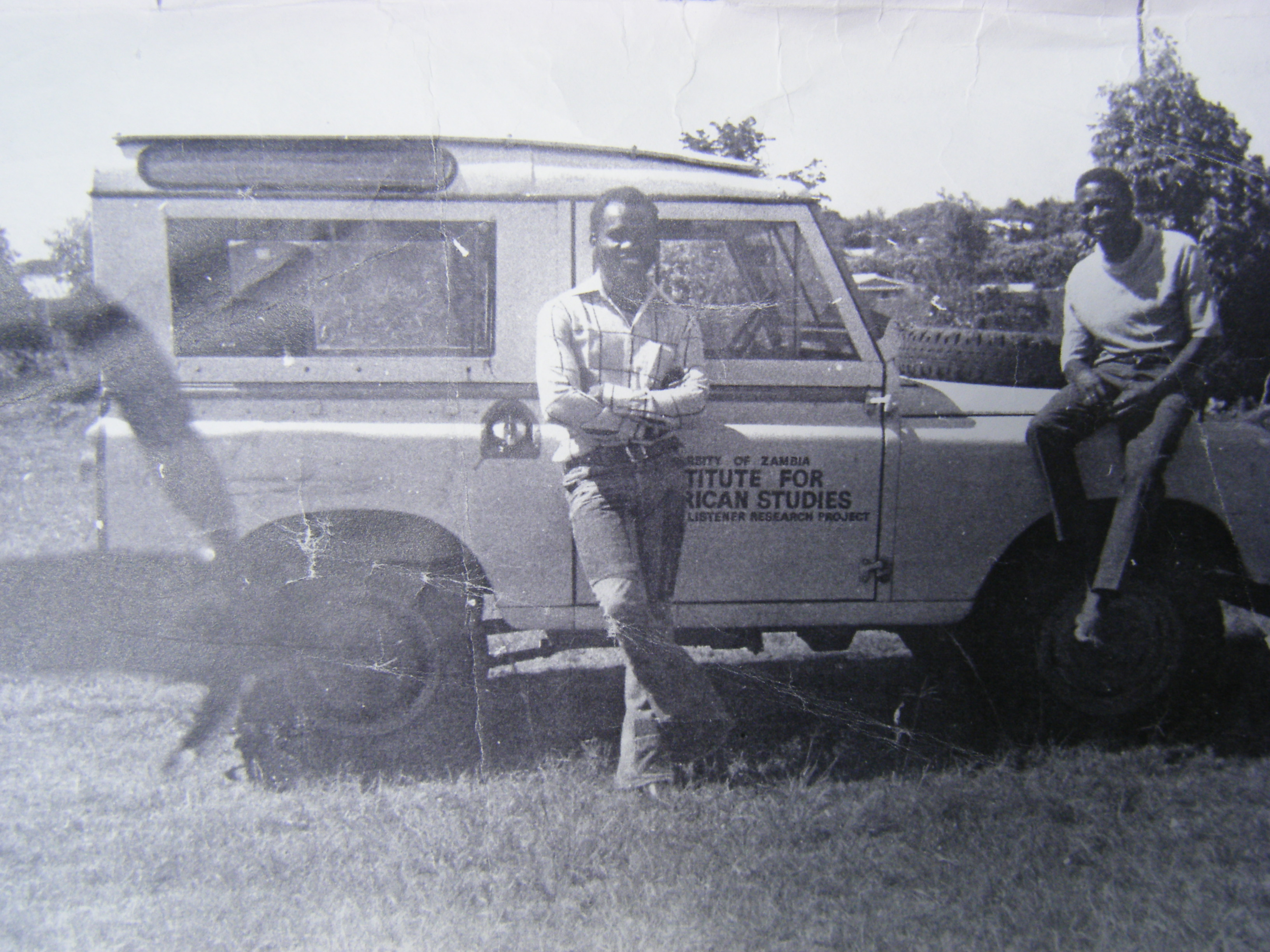 Henry Tayali, with his worker, Lungu, in Roma, Lusaka in 1976. The Land Rover belonged to the University Department Henry worked in, and he used for his field trips.